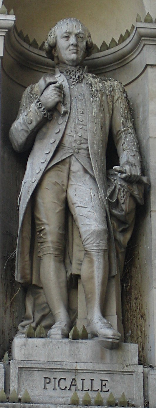 Jean-Baptiste Pigalle, French sculptor. Statue in the Hôtel de Ville of Paris.